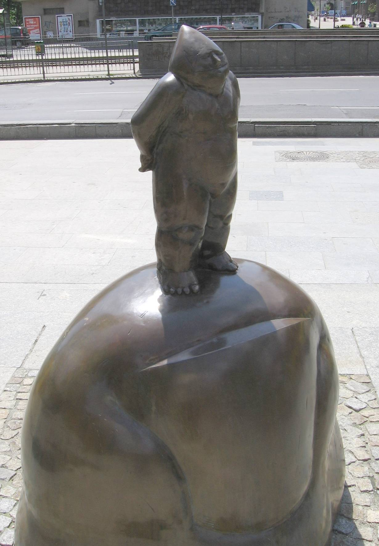 Bronze dwarf in Wrocław, Poland - the memorial of "Pomarańczowa Alternatywa" ("Orange Alternative"), the Polish unofficial movement (1982-1988) against communist regime.